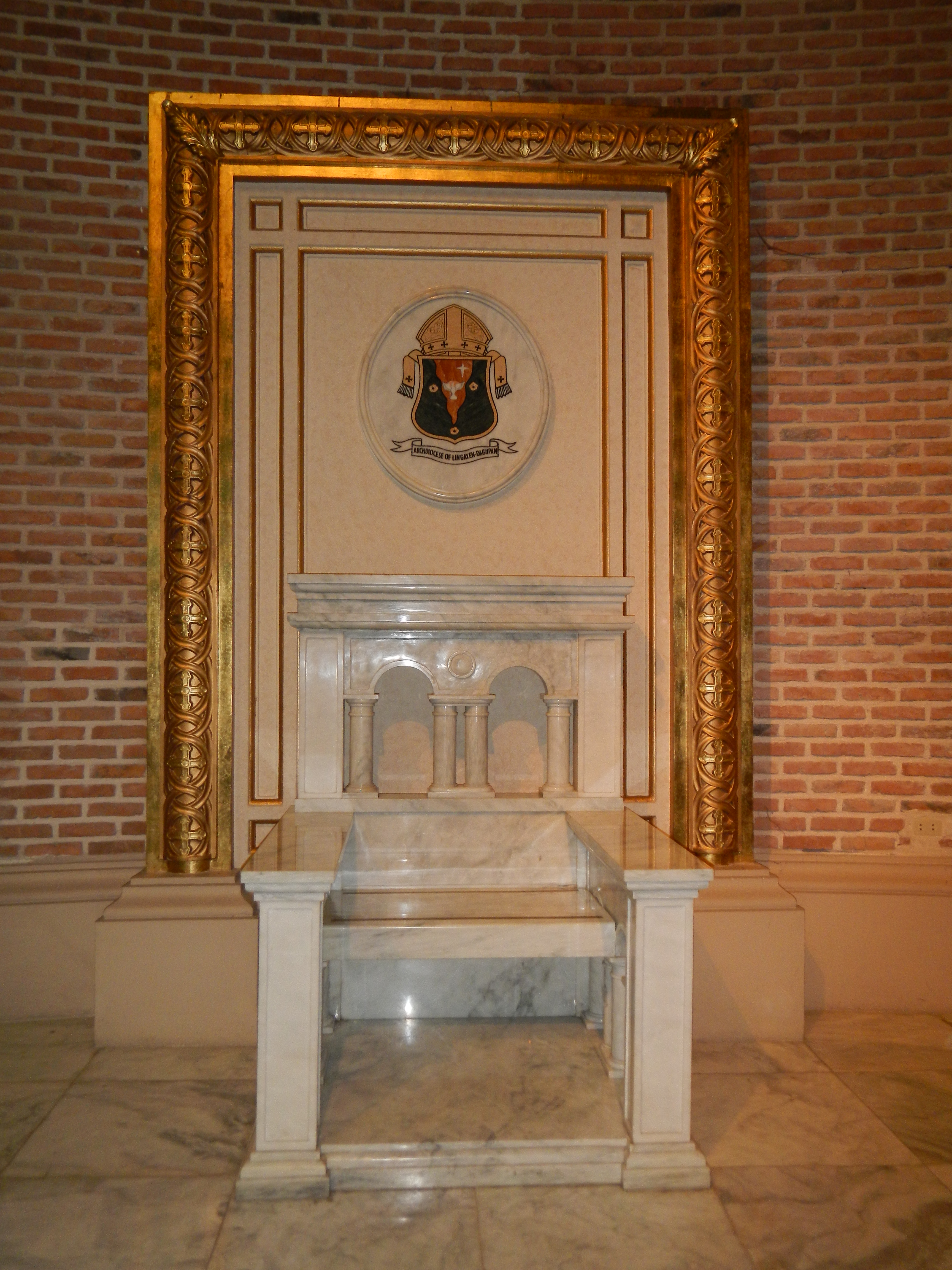 Archbishop Chair and Coat of Arms, Roman Catholic Archdiocese of Lingayen-Dagupan [1] in St. John Cathedral Dagupan City